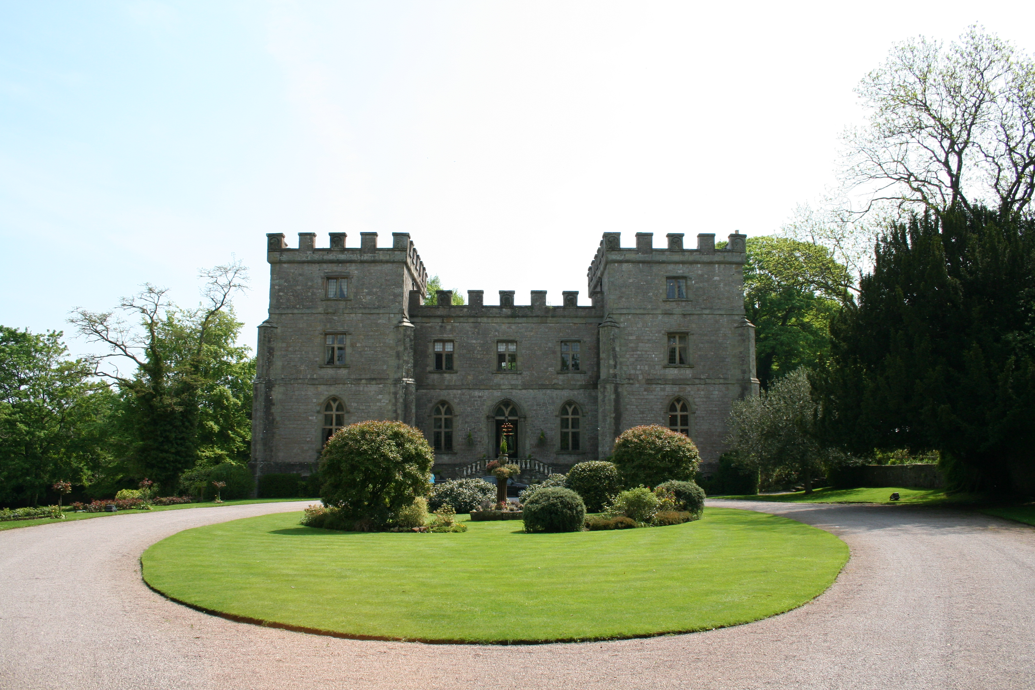 Clearwell Castle, May 2008.